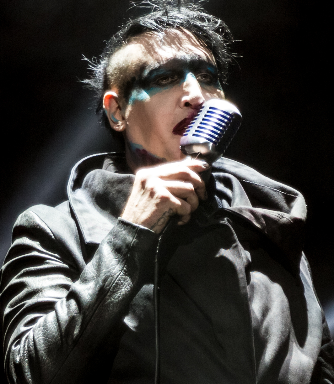 Marilyn Manson - Rock am Ring 2015